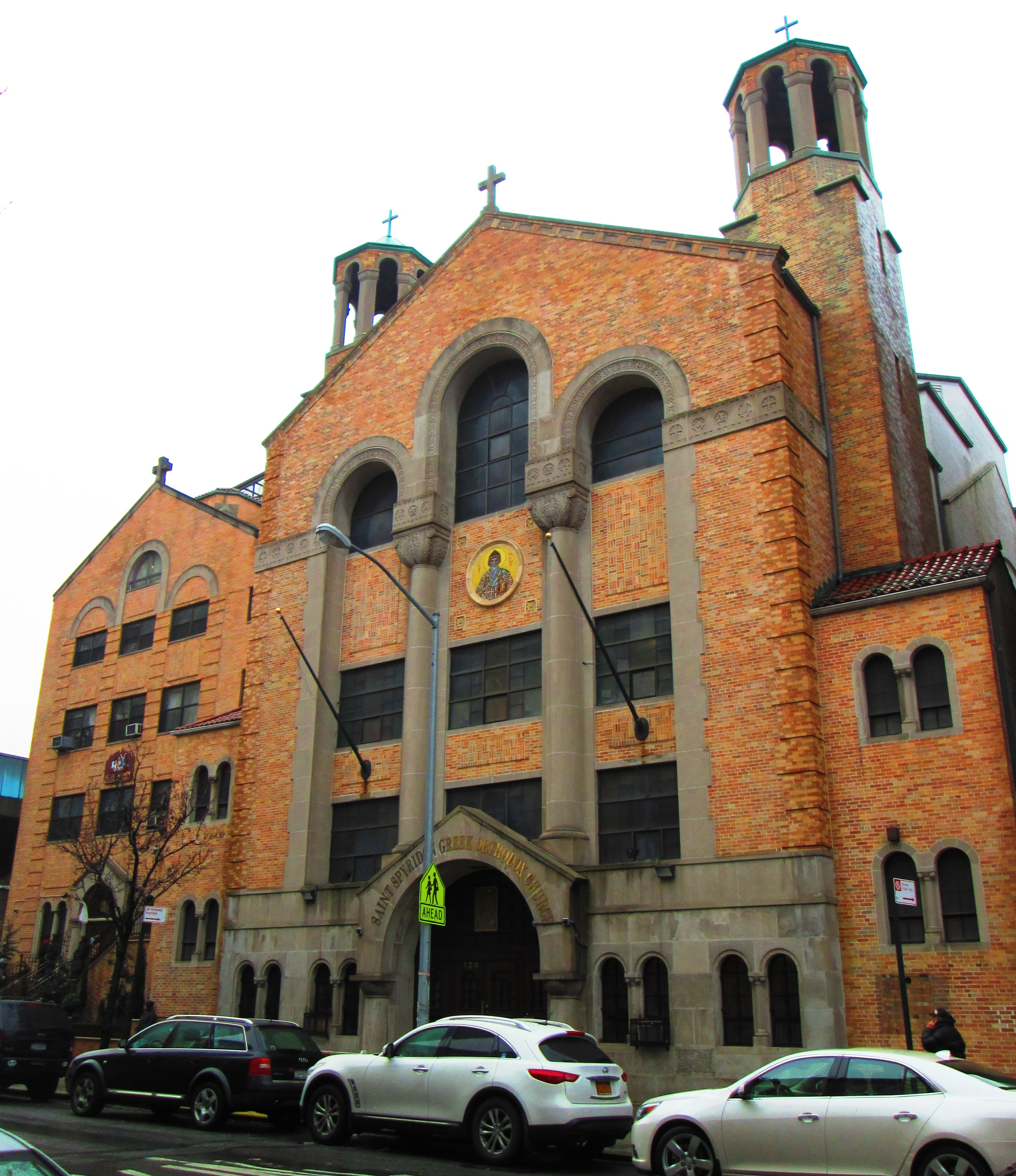 The Washington Heights Hellenic Church of St. Spyridon, at 124 Wadsworth Avenue near the corner of West 179th Street in the Washington Heights neighborhood of Manhattan, New York City, was built in 1951-54 and was designed by Kokkins & Lyras. The congregation was founded in 1931. (Source: From Abyssinian to Zion (2004))